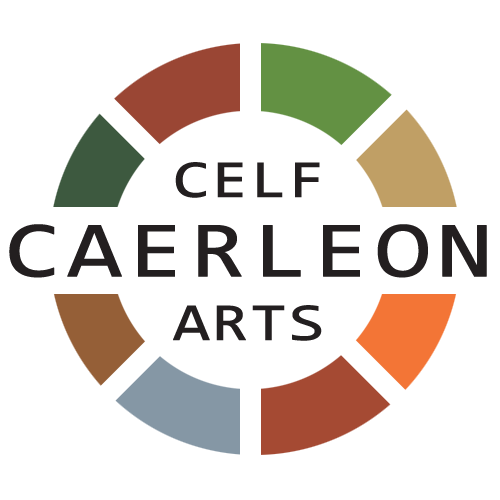 Caerleon Arts Festival logo featuring the Welsh and English words for 'arts' and the depiction of the Caerleon Roman Ampitheatre